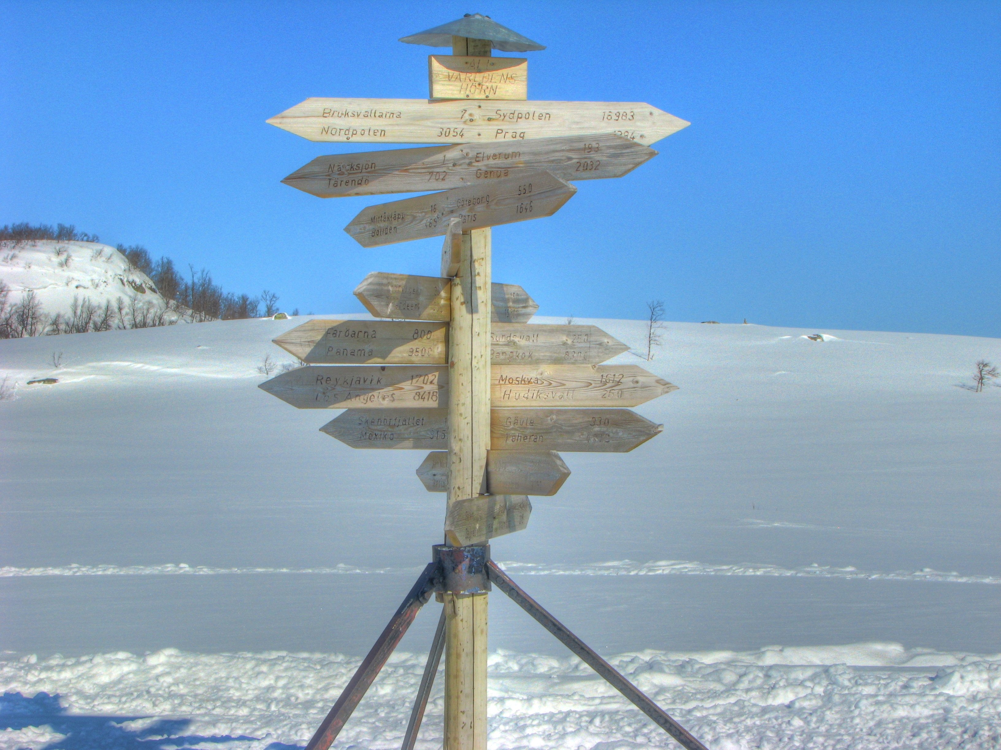 Signs pointing at various World destinations from Funäsdalen.